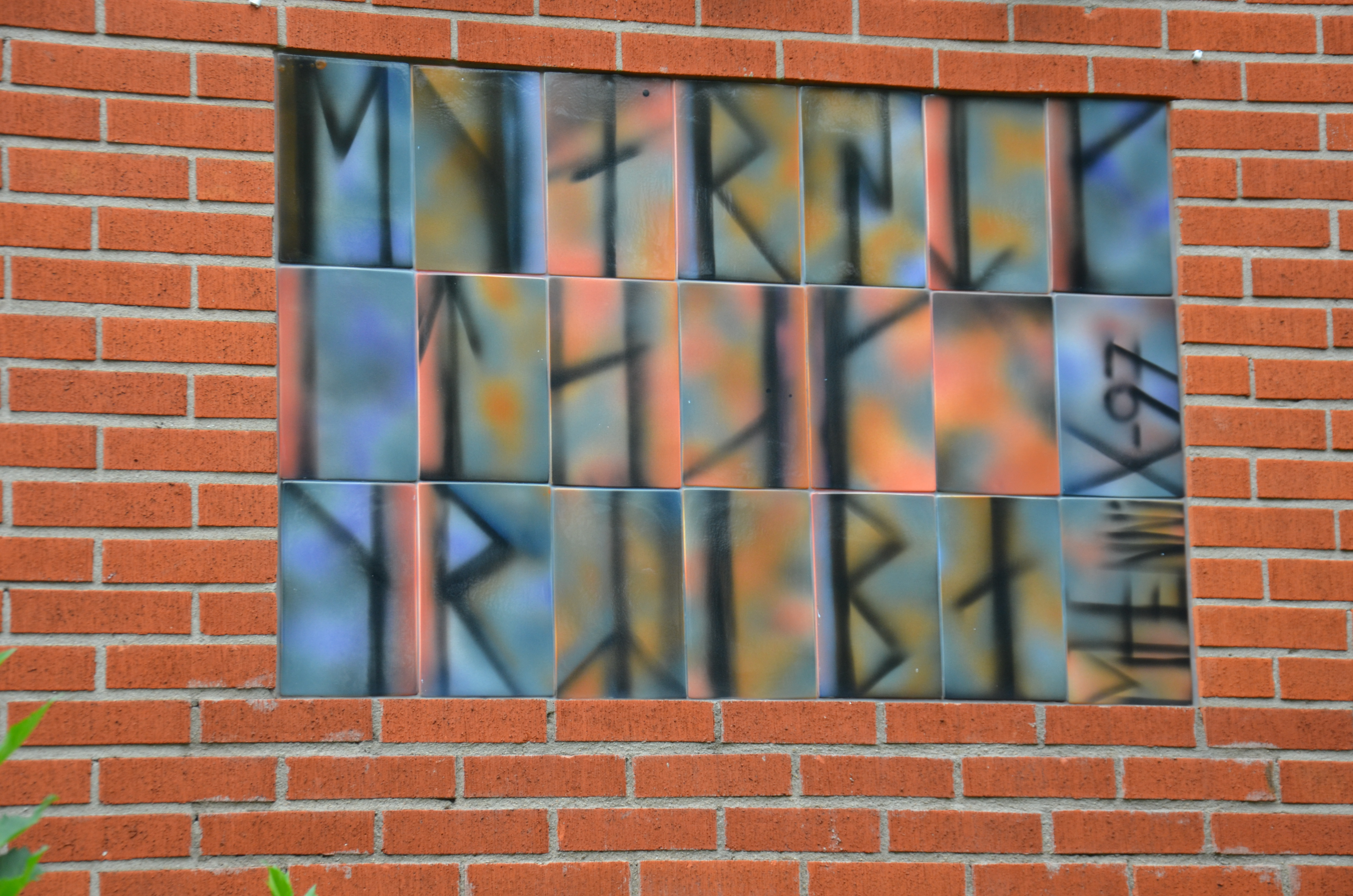 Tecken av Margareta Hennix This reproduction of an architectural work or work of art, is covered under the Swedish law of copyright for literary and artistic works (Law 1960:729, paragraph 24), which states that "Work of art may be depicted if it is permanently placed on or at a public place outdoors. Buildings may be freely depicted." See Commons:Freedom of panorama#Sweden for more information.